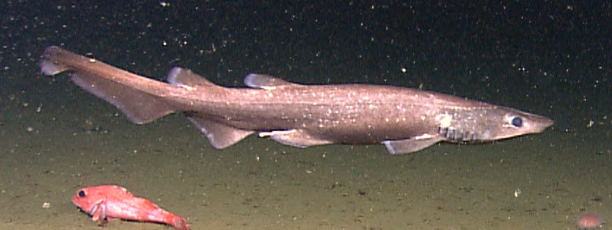 Brown catshark (Apristurus brunneus) cruising close to the bottom over a shortspine thornyhead (Sebastolobus alascanus) Image ID: expl2920, Voyage To Inner Space - Exploring the Seas With NOAA Collect Location: California, Channel Islands, Santa Cruz Is. area Photo Date: 2011 April 20 Credit: NOAA Okeanos Explorer Program